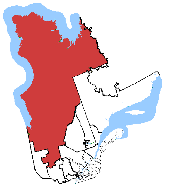 Map of the Abitibi—Baie-James—Nunavik—Eeyou electoral district. Based on Earl Andrew's maps, created by SimonP.